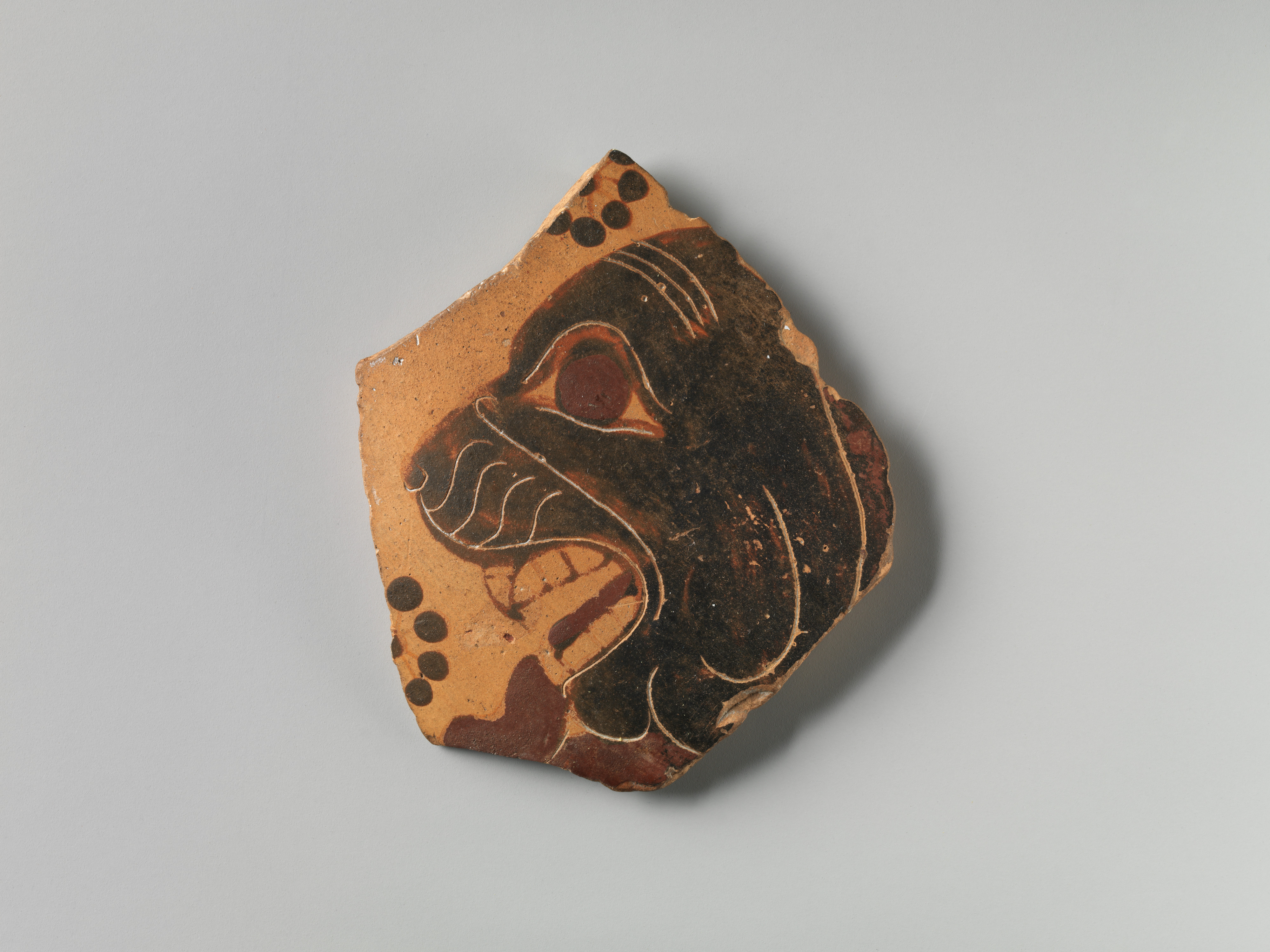 Greek, Attic; Vase fragment; Vases